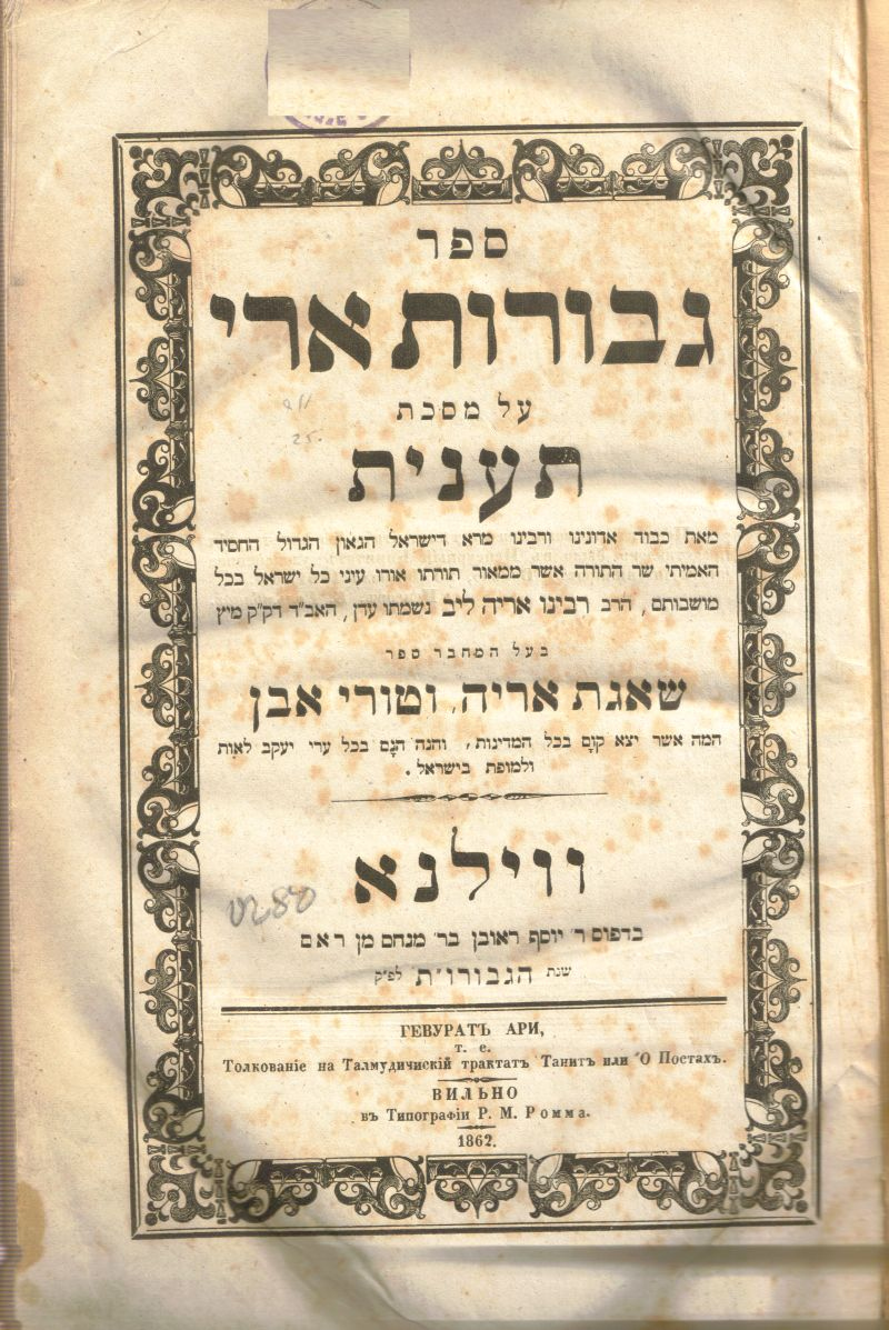 Gvirot Ar- by Shaa'at Arye - Vilna 1862 , 1st ed.